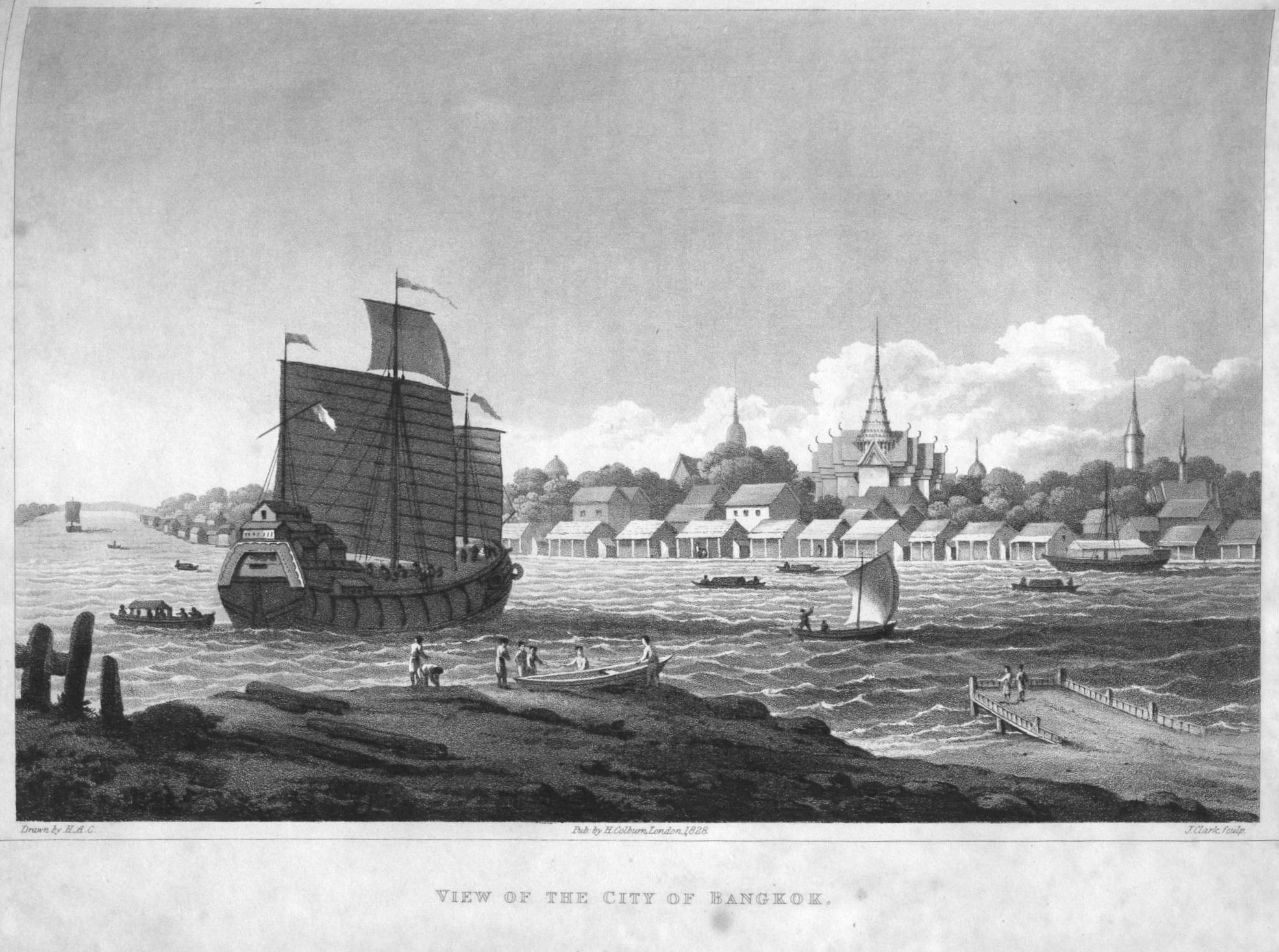 "View of the city of Bangkok" from the book "Journal of an embassy from the Governor-General of India to the courts of Siam and Cochin-China" by John Crawfurd (publication date 1828); of his voyage to Siam and Cochin-China in 1822. The temple is probably Wihan Yot, built by King Rama I, and part of Wat Phra Kaew, the temple of the Emerald Buddha.